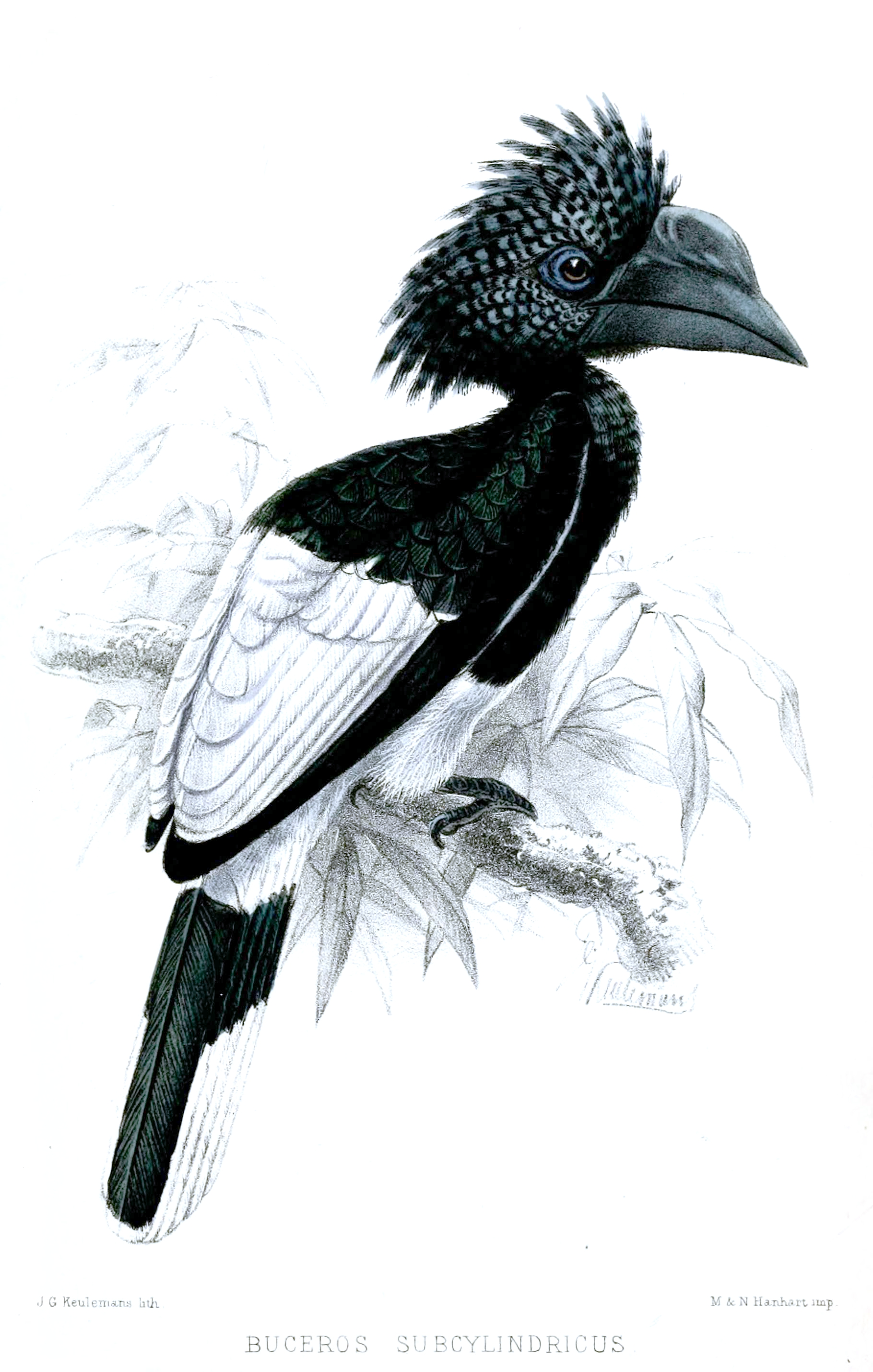 Buceros subcylindricus = Bycanistes subcylindricus